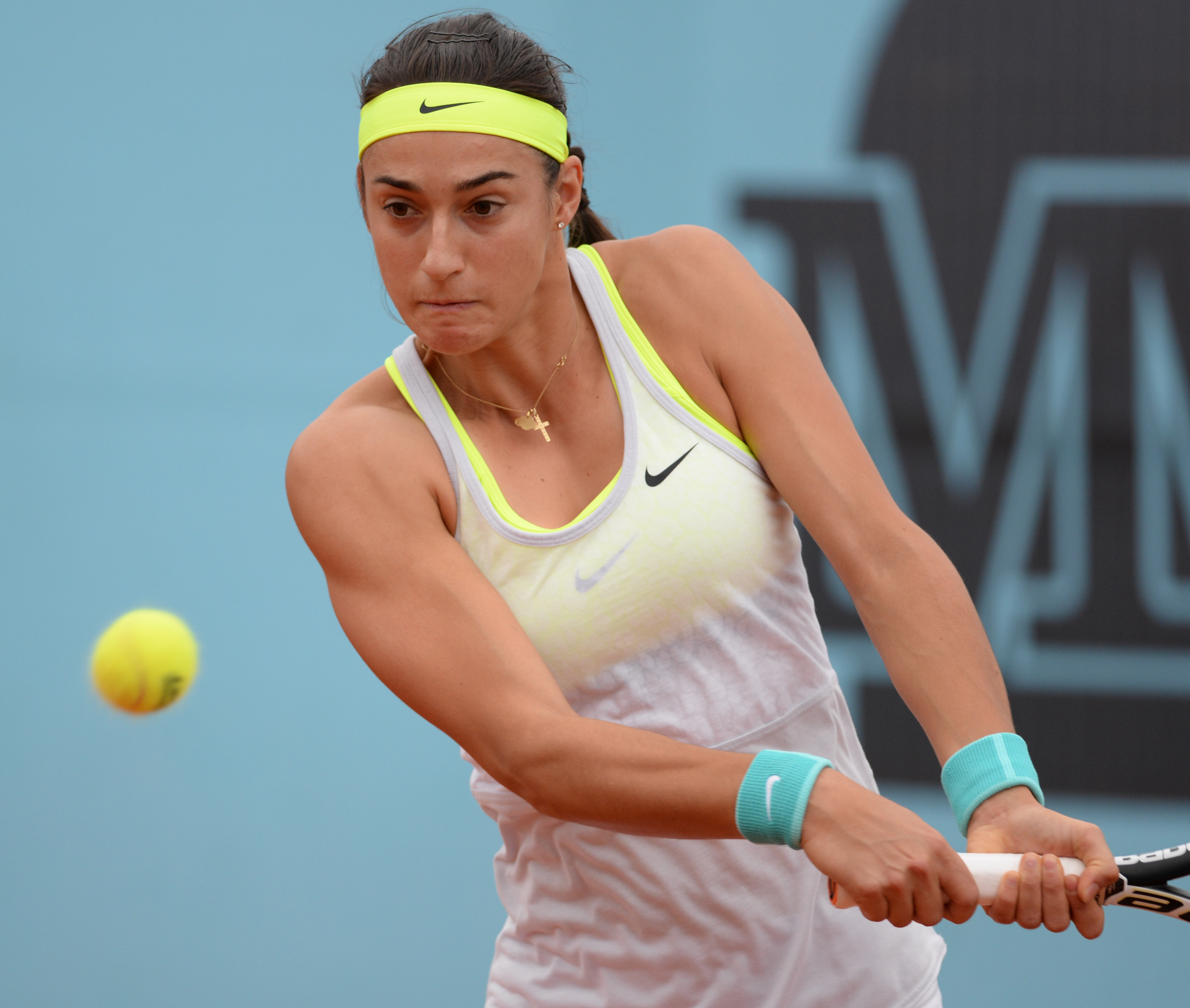 Caroline Garcia